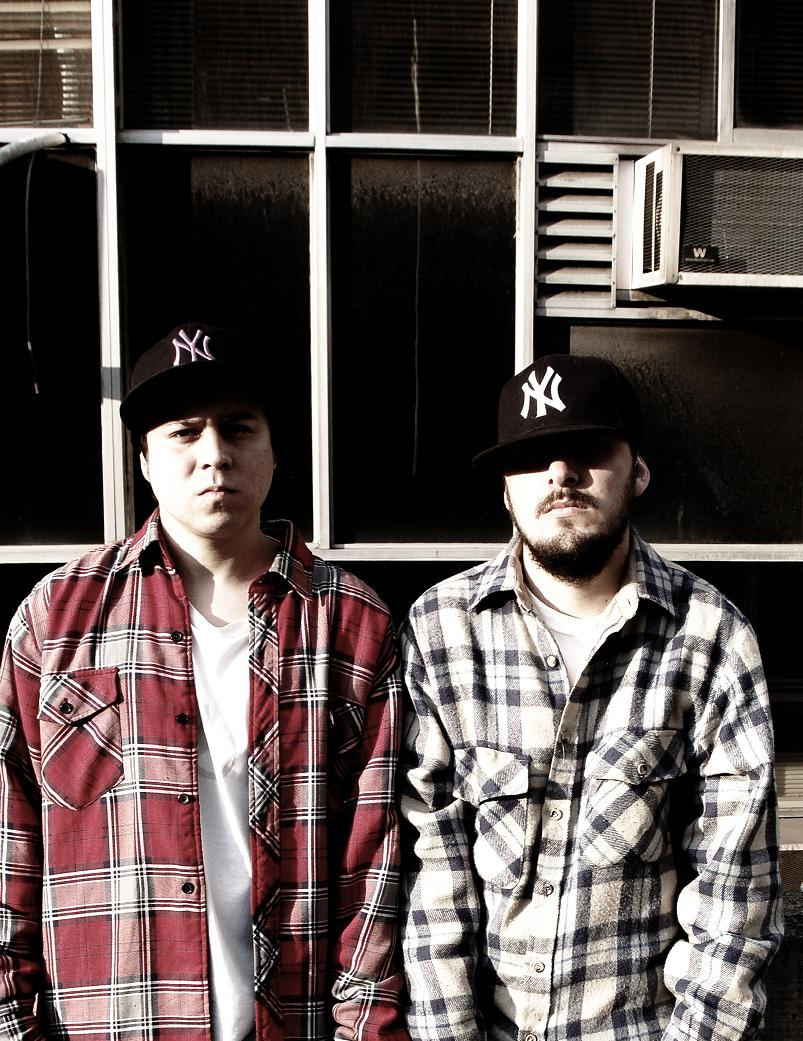 By_OrganikaStudio